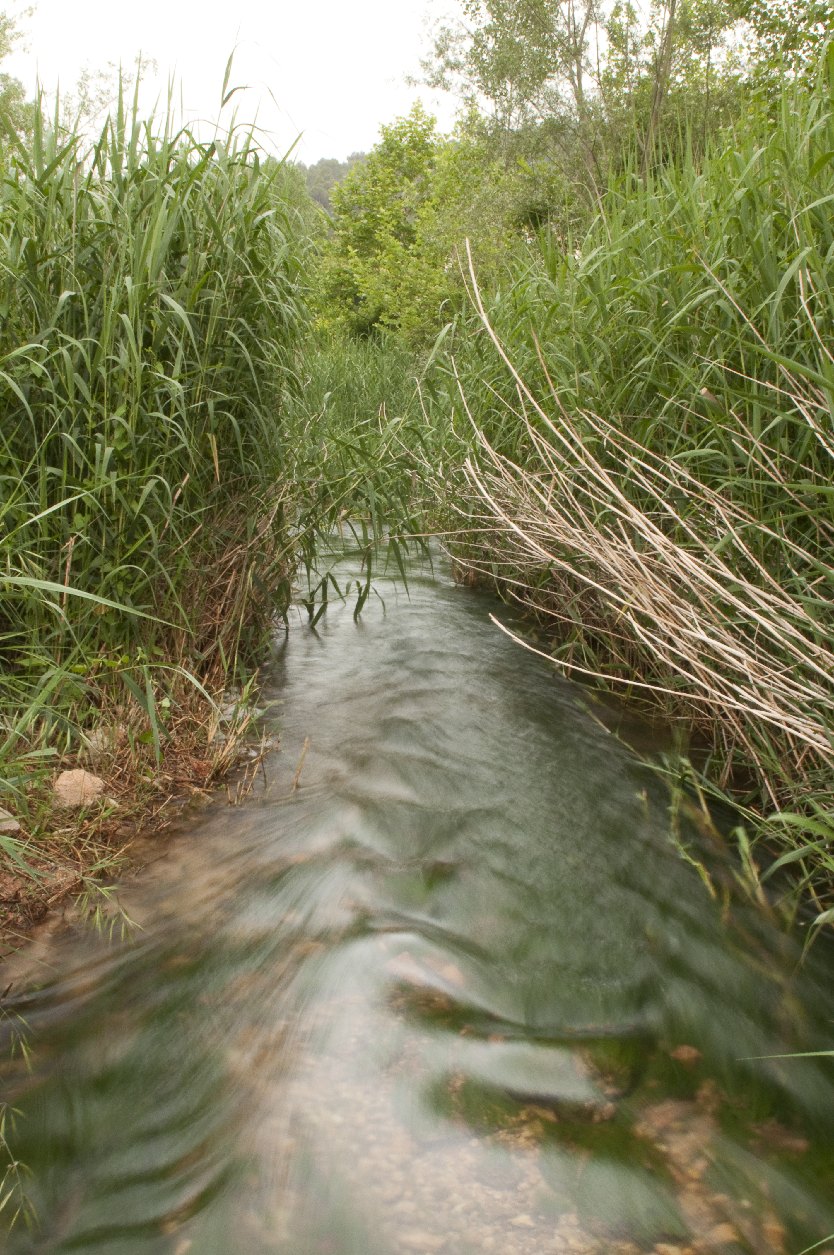 Overview about Carme's river